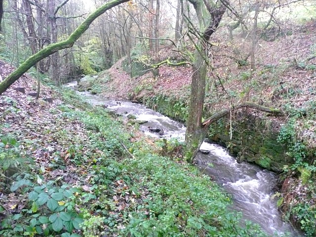 The River Ribble above Swan Bank, Cartworth (Holmfirth) This was taken from a footpath that crosses the river by a stone footbridge. High up on the left there is a terrace of houses fronting onto Dunford Road.